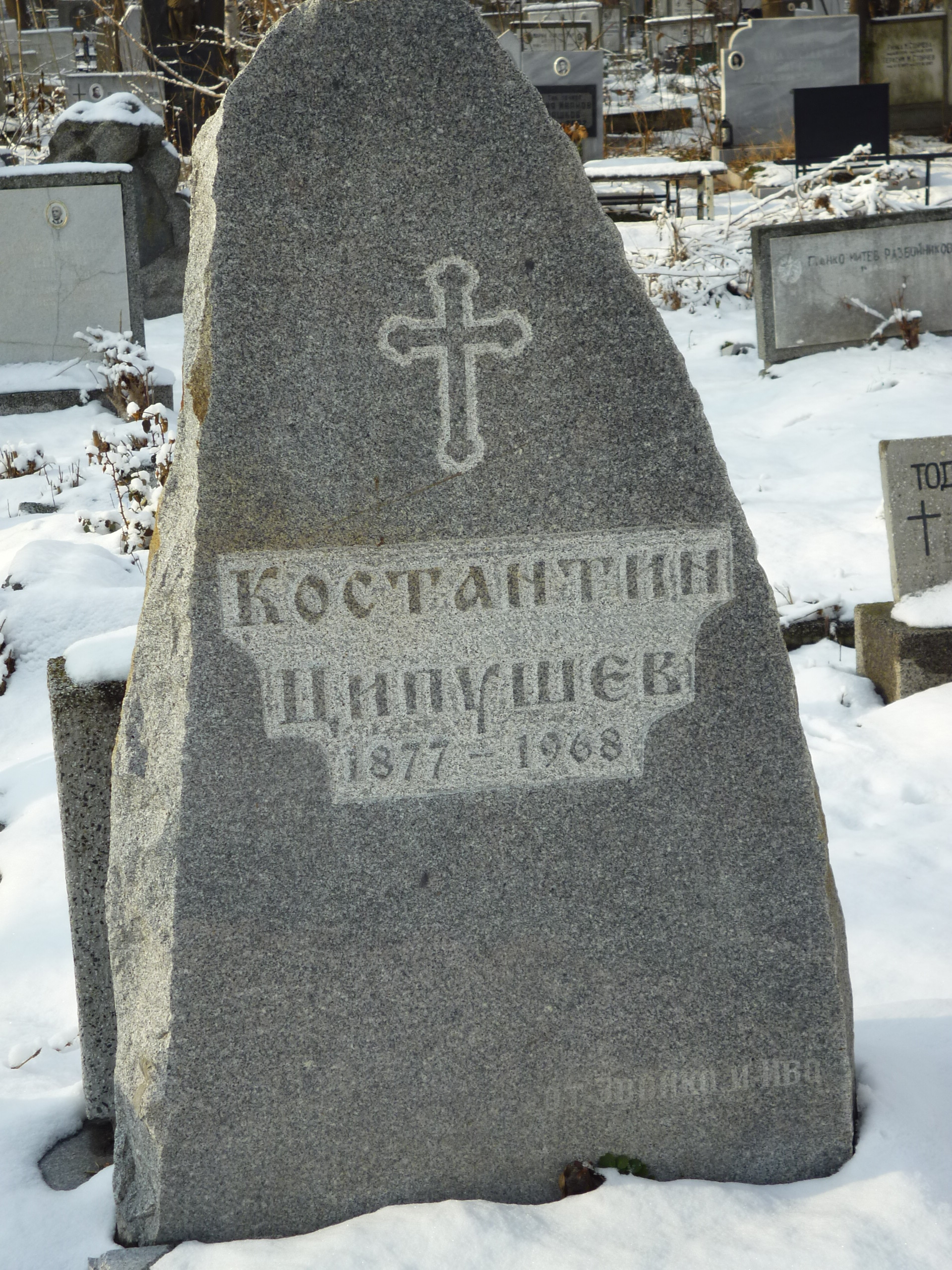 Konstantin Tsipushev grave in Central Sofia grave park